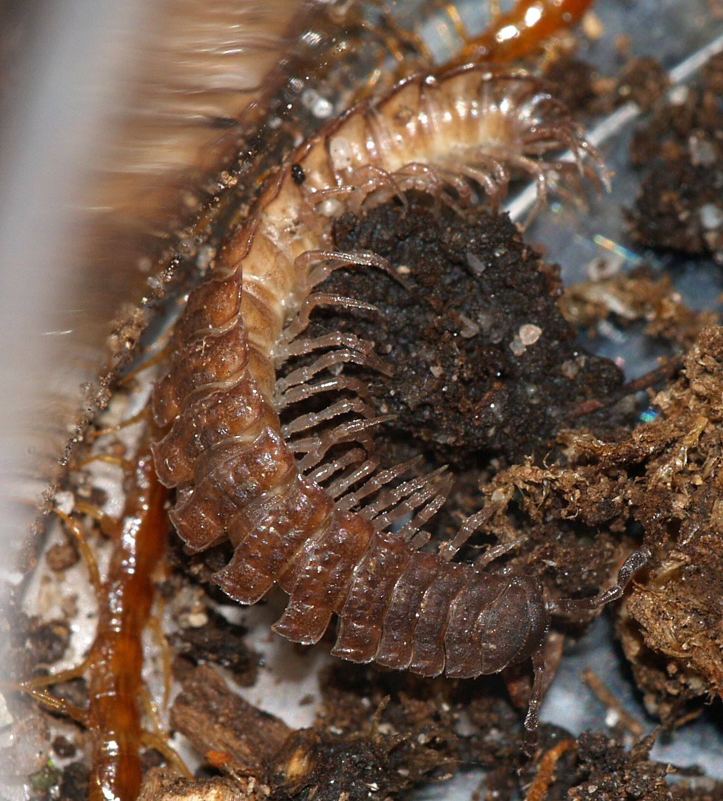 Polydesmus angustus from Ratingen, Germany. (51°18′N 06°51′E / 51.3°N 6.85°E)